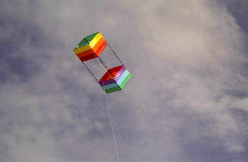 Traditional box kite on SC coast.